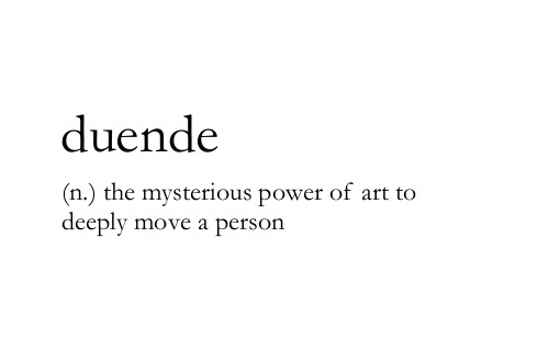 an explanation of duende